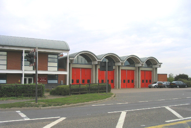 Orsett Fire Station, Essex. Although Orsett is a small village, this station has 3 or 4 appliances, as it covers the large petro-chemical works alongside the River Thames.